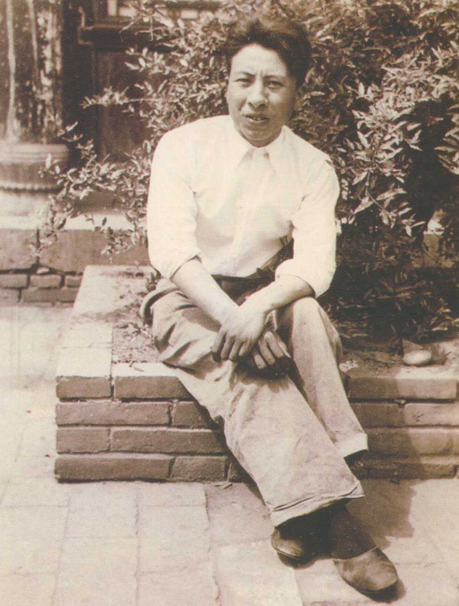 Chinese archaeologist Xia Nai in Anyang, 1935